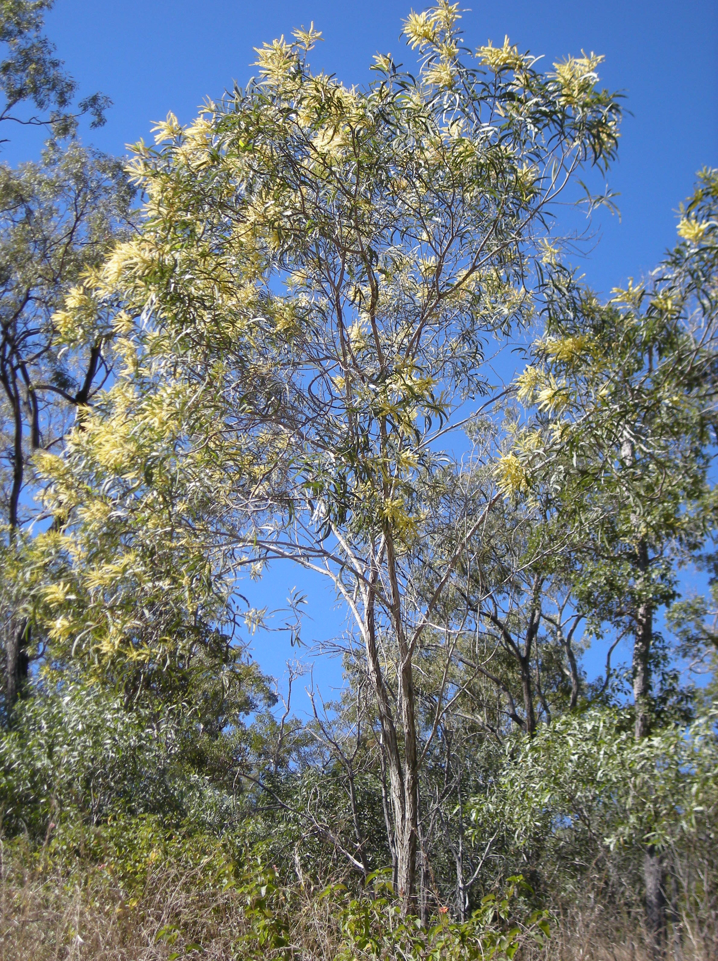 Acacia aulacocarpa tree. Mount Archer National Park, Rockhampton, Queensland.